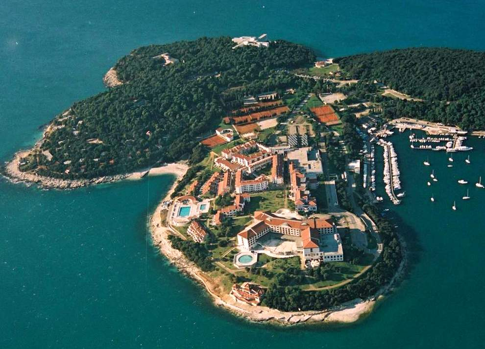 Punta Verudela in Pula, Croatia